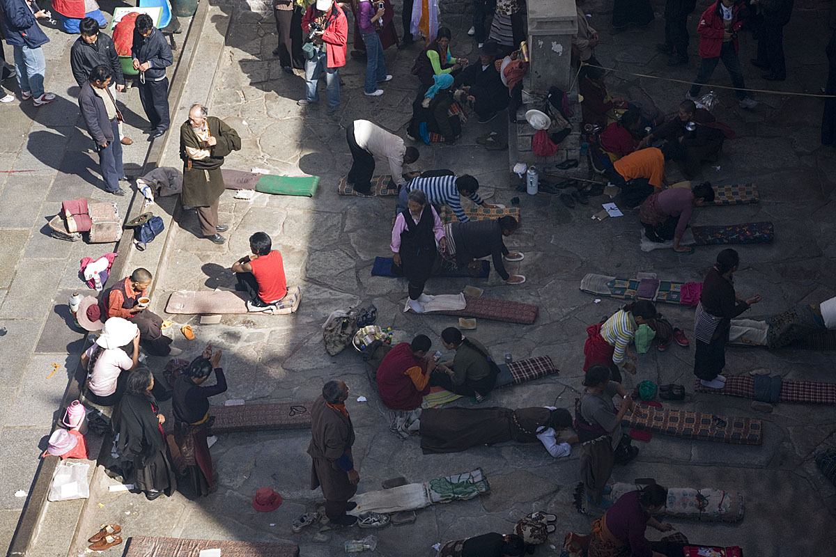 Pilgrims pray in front of the Jokhang temple in Lhasa, Tibet